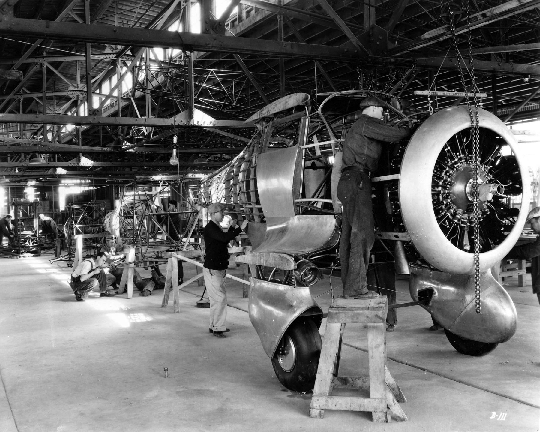 The Beech YC-43 assembly line, probably Model 17R. This civilian type was the first production staggerwing model and featured a fixed landing gear. The photo was probably taken in the summer or early fall of 1942. In late 1938, the Air Corps evaluated the Beech Model D17S for possible use as a light liaison aircraft. Three aircraft were purchased and designated as YC-43s. The distinctive five-place biplane featured negatively staggered wings - the lower wing was forward of the upper wing. The plane also had retractable landing gear and a minimum of drag-producing wing supports which combined to give the YC-43 a cruising speed of about 200 miles per hour. After a short flight test program, the YC-43s were sent to Europe to serve as liaison aircraft with the US Air Attachés in London, Paris and Rome. Assembly line - probably Model 17R. This civilian type was the first production staggerwing model and featured a fixed landing gear. Photo was probably taken in the summer or early fall of 1942.Beech YC-43 (retrieved 7 January 2006) This photo is not from 1942 but taken in late 1933 or early 1934. The aircraft in the foreground is the A17F being built for Goodall Worsted Corporation. Interesting too is that this picture is from inside the Cessna Aircraft plant on Pawnee (then Franklin road) although in a few months Beech Aircraft would move to the closed Travel Air facilitates at Central and Webb as Clyde Cessna and Dwayne Wallace had restarted Cessna aircraft.